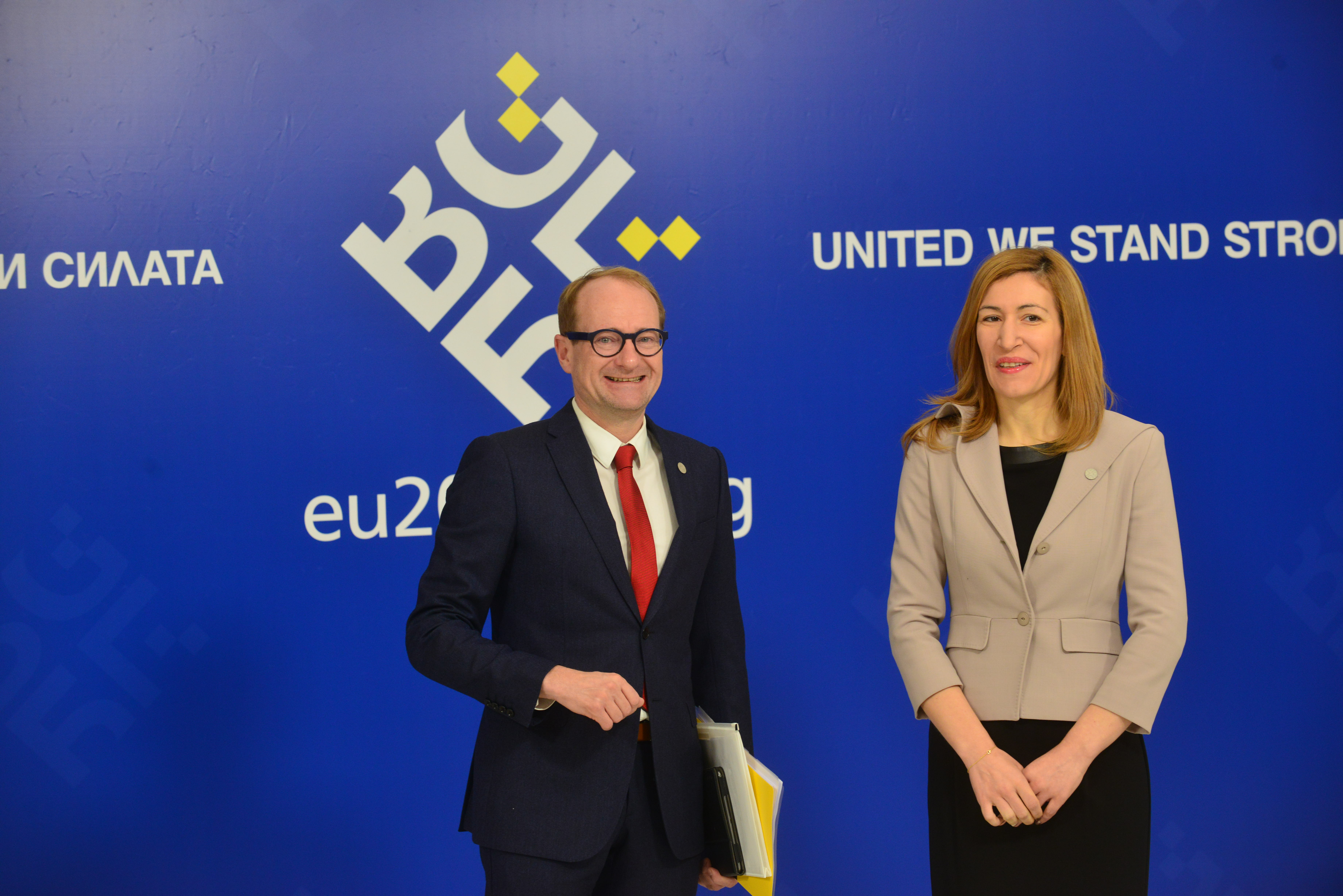 Ben Weyts, Minister for Mobility, Public Works, the Vlaamse Rand, Tourism and Animal Welfare of Belgium (left), Nikolina Angelkova, Minister of Tourism of the Republic of Bulgaria (right) Photo: Yordan Simeonov (EU2018BG)